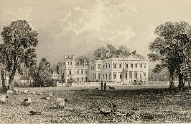 View of Eastwick Park, Surrey, England.